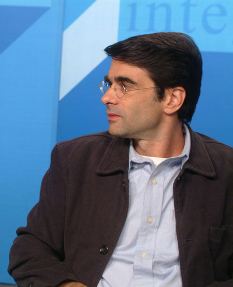 The Brazilian filmmaker (documentary) João Moreira Salles